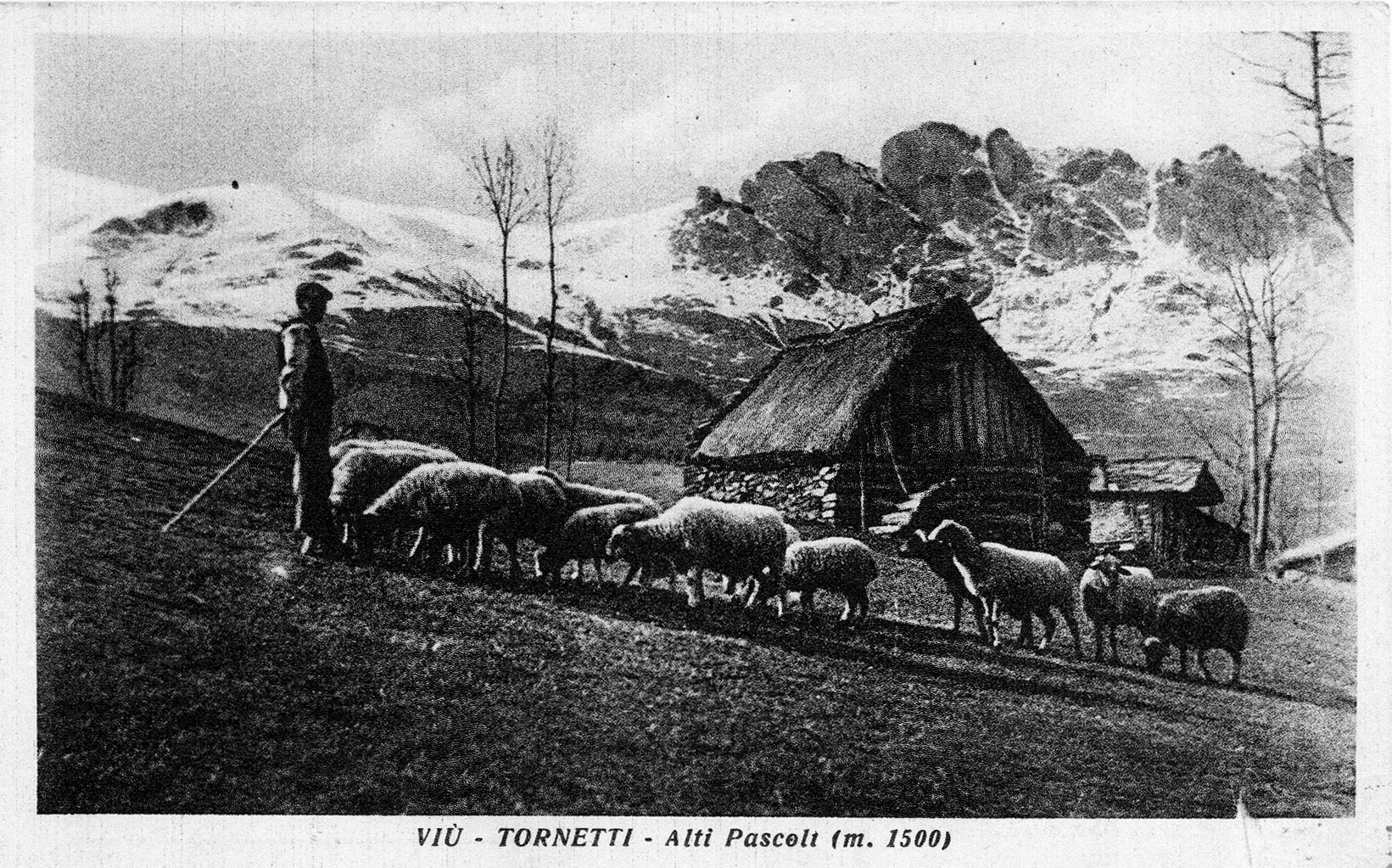 Viù - Tornetti - Alti Pascoli (m. 1500)